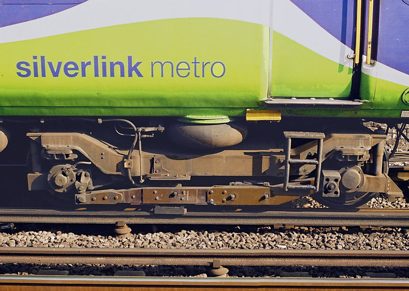 With surface contact third (and fourth) rail systems a heavy "shoe" which is suspended from a wooden beam attached to the bogies (wheel units) collects power by sliding over the top surface of the electric rails. This view shows a class 313 train which operates on Silverlink and WAGN routes primarily to the north and west of London. Photograph taken by SPSmiler.